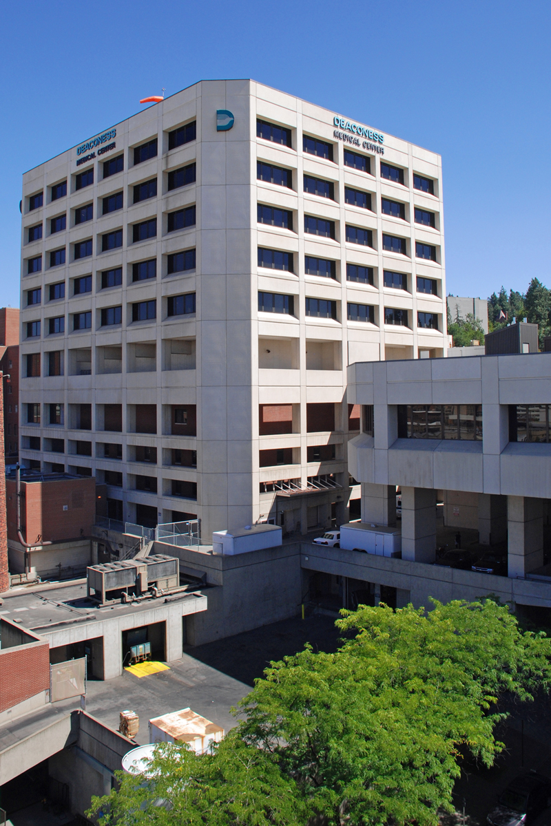 Picture the patient tower at Deaconess Medical Center in Spokane, Washington.